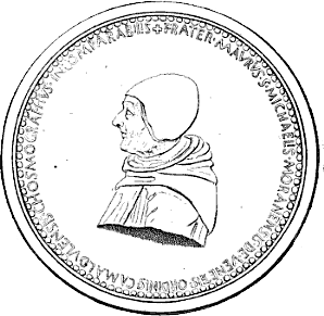 A medal with the likeness of "Fra Mauro of the Venetian monastery of St. Michael in Murano, of the Camaldolese Orden, an incomparable cosmographer". Produced ca. 1459, soon after Fra Mauro's death. The medal has been attributed by some researchers to Giovanni Boldù. It is presently in the City Museum of Venice. (See Piero Falchetta (2006), p. 145).